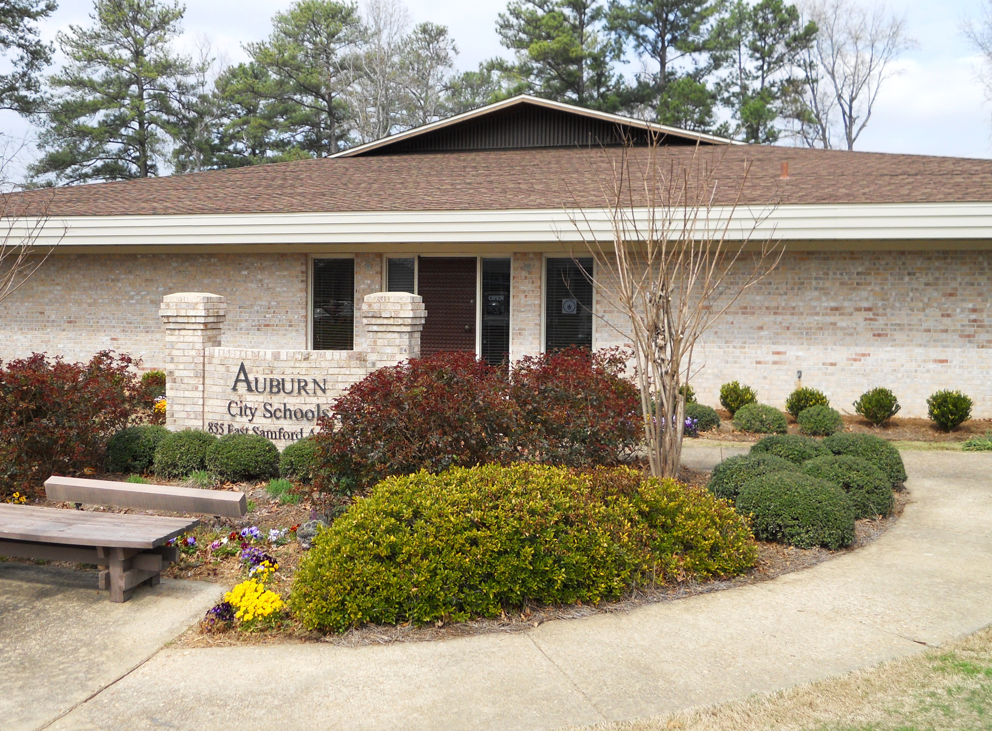 This is a photograph of the Auburn City Schools administration building and central office located at 855 East Samford Avenue in Auburn, Alabama.